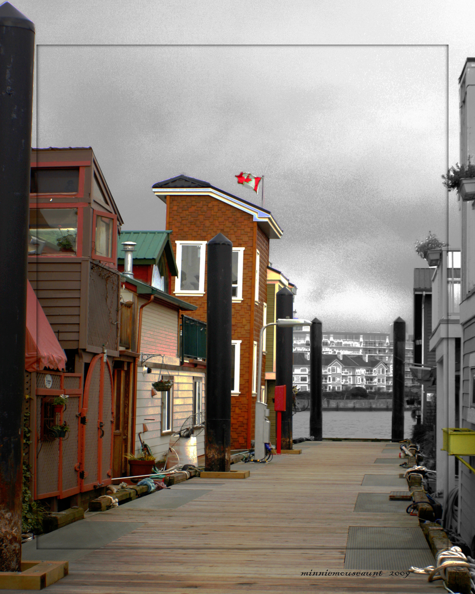 The following is the author's description of the photograph quoted directly from the photograph's Flickr page. "Thanks you for visiting my photo site. More views of the homes on the water along the harbour in Victoria. "